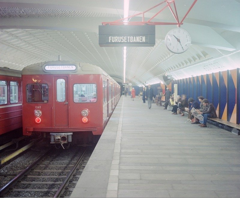 Sentrum Station of the Oslo Metro